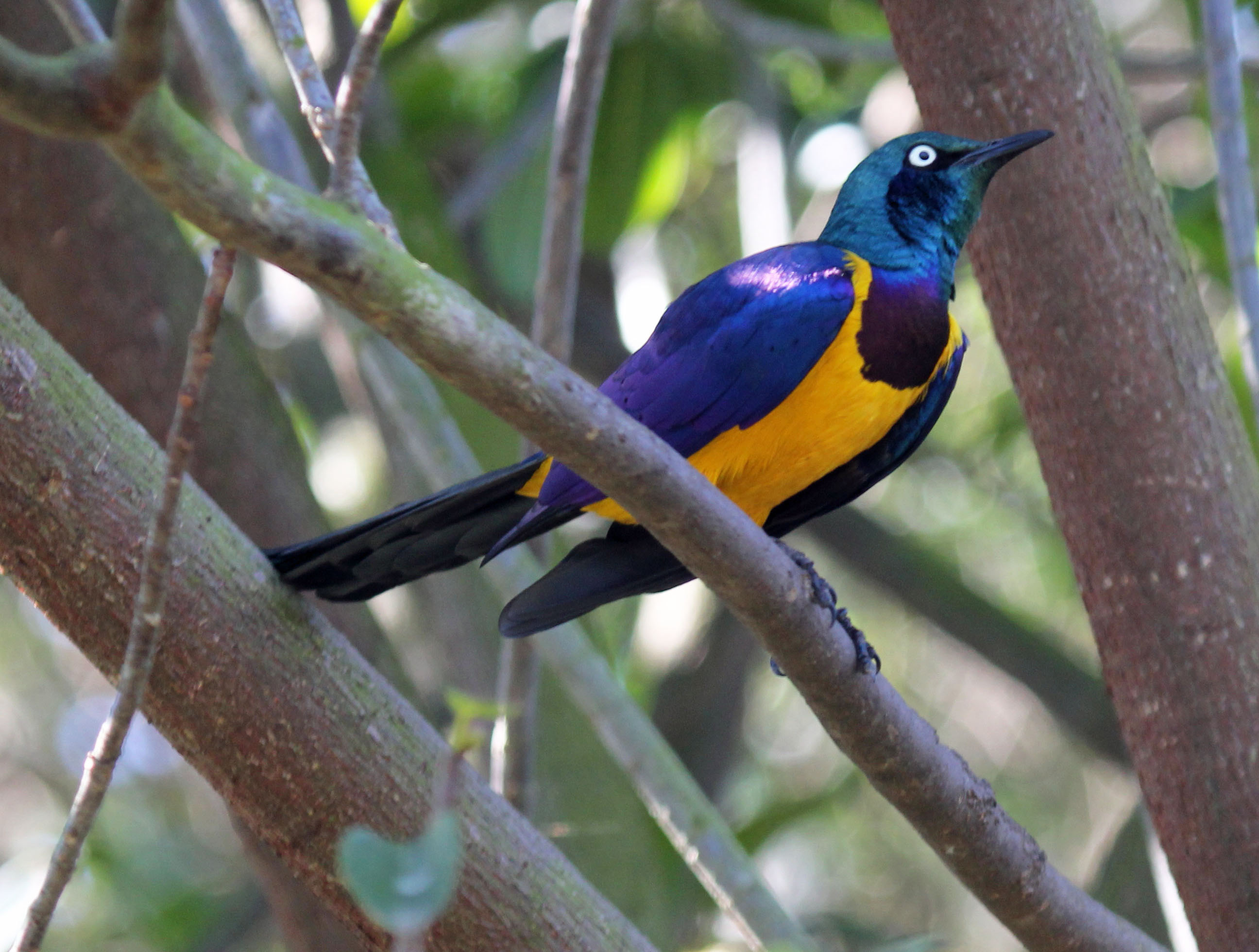 Golden-breasted Starling (Cosmopsarus regius) at Birds of Eden aviary, South Africa